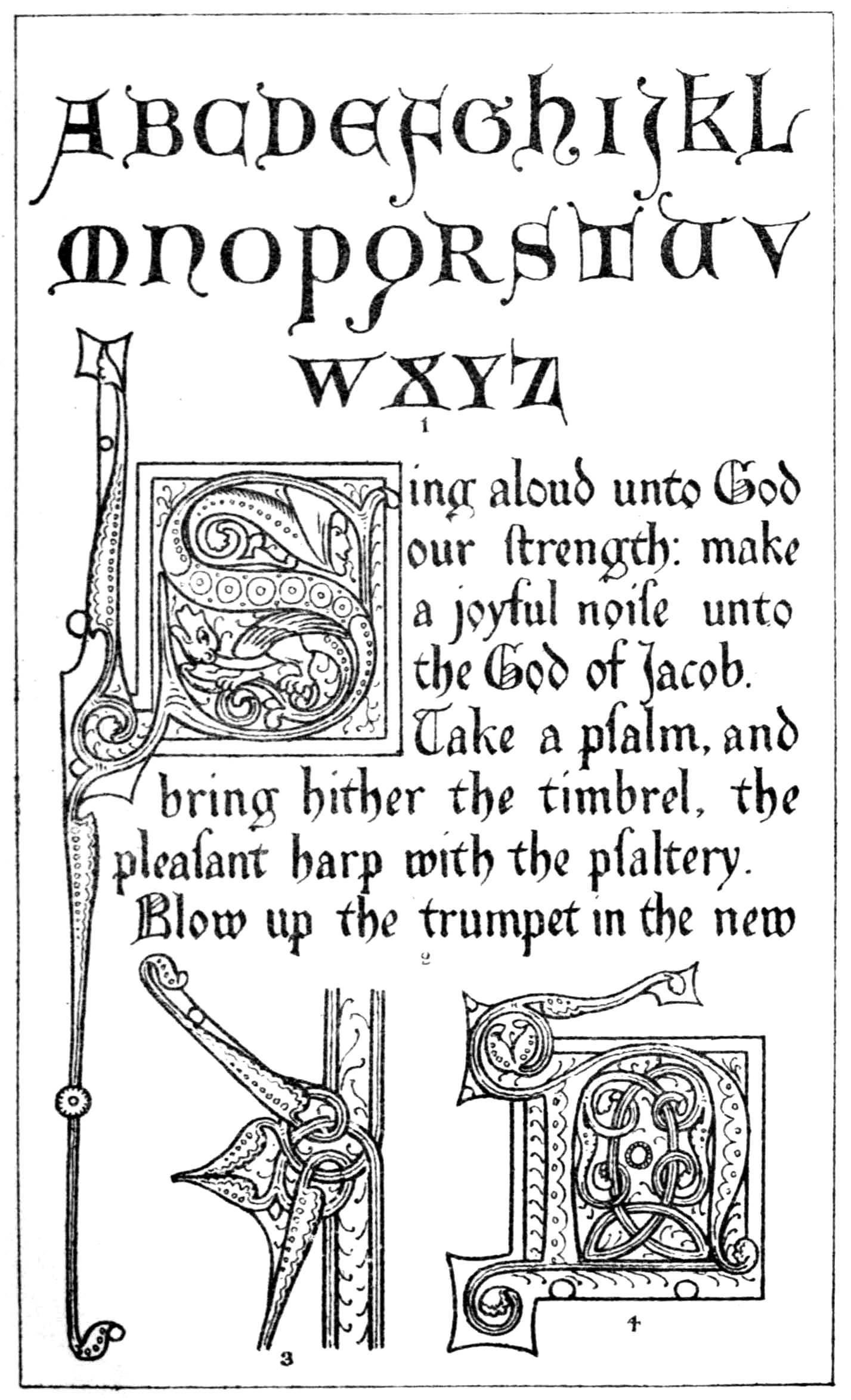 Figure from The History, Theory, and Practice of Illuminating. Letter shapes (not actual text) from British Museum, Reg I. D. I. 13th century.